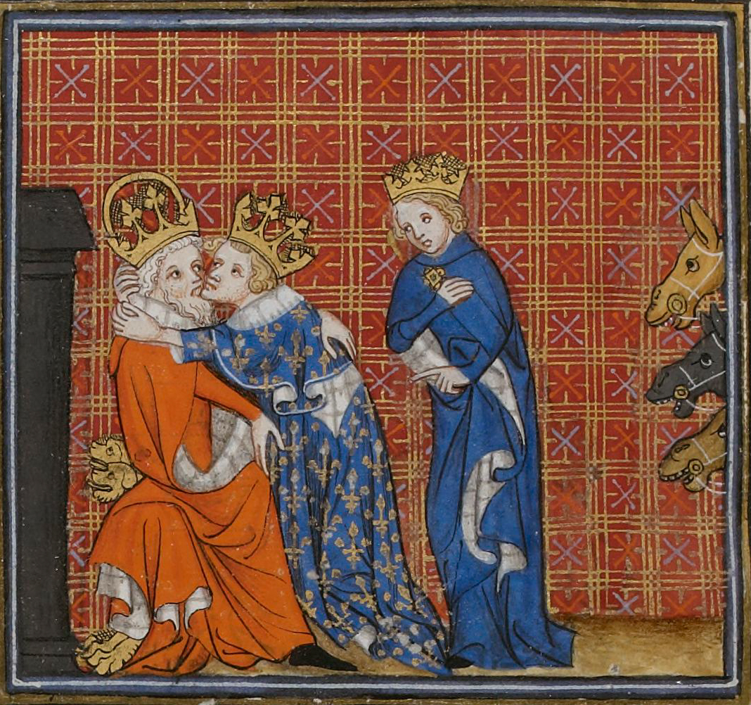 Wenceslaus IV, king of Bohemia + King Charles V of France +Emperor Charles IV